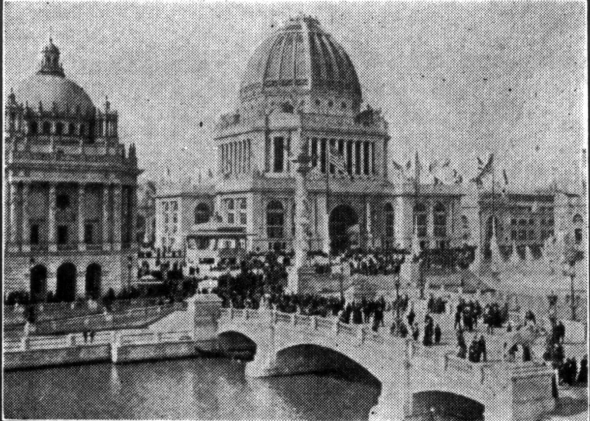 The Administration Building, seen from the Agricultural Building.